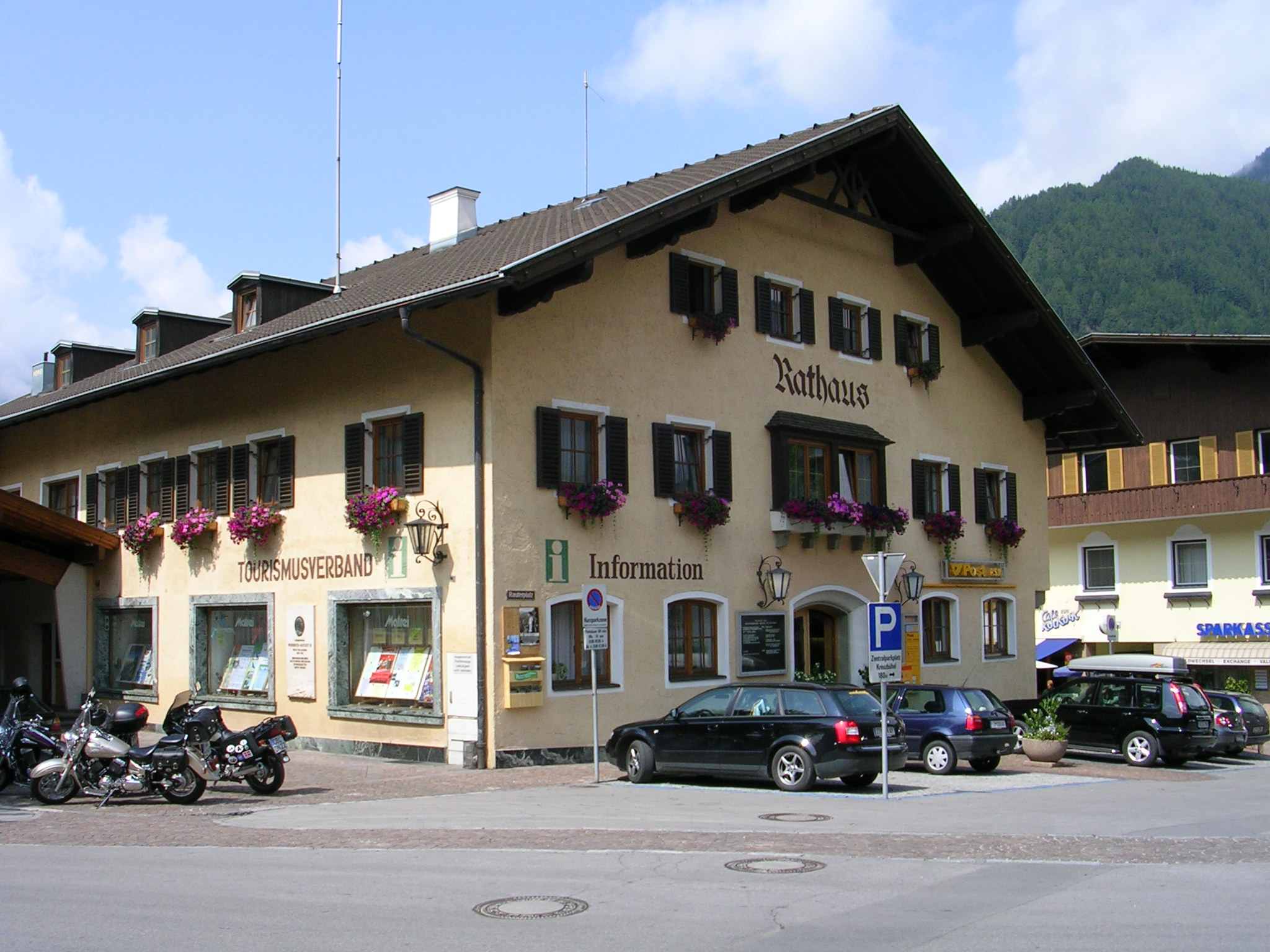 Townhall of Matrei in Osttirol